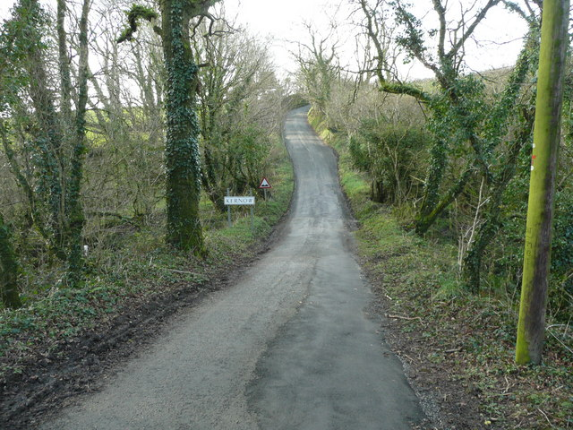 Entering Kernow The lane crosses the Tamar at the most northerly bridge on the border river.